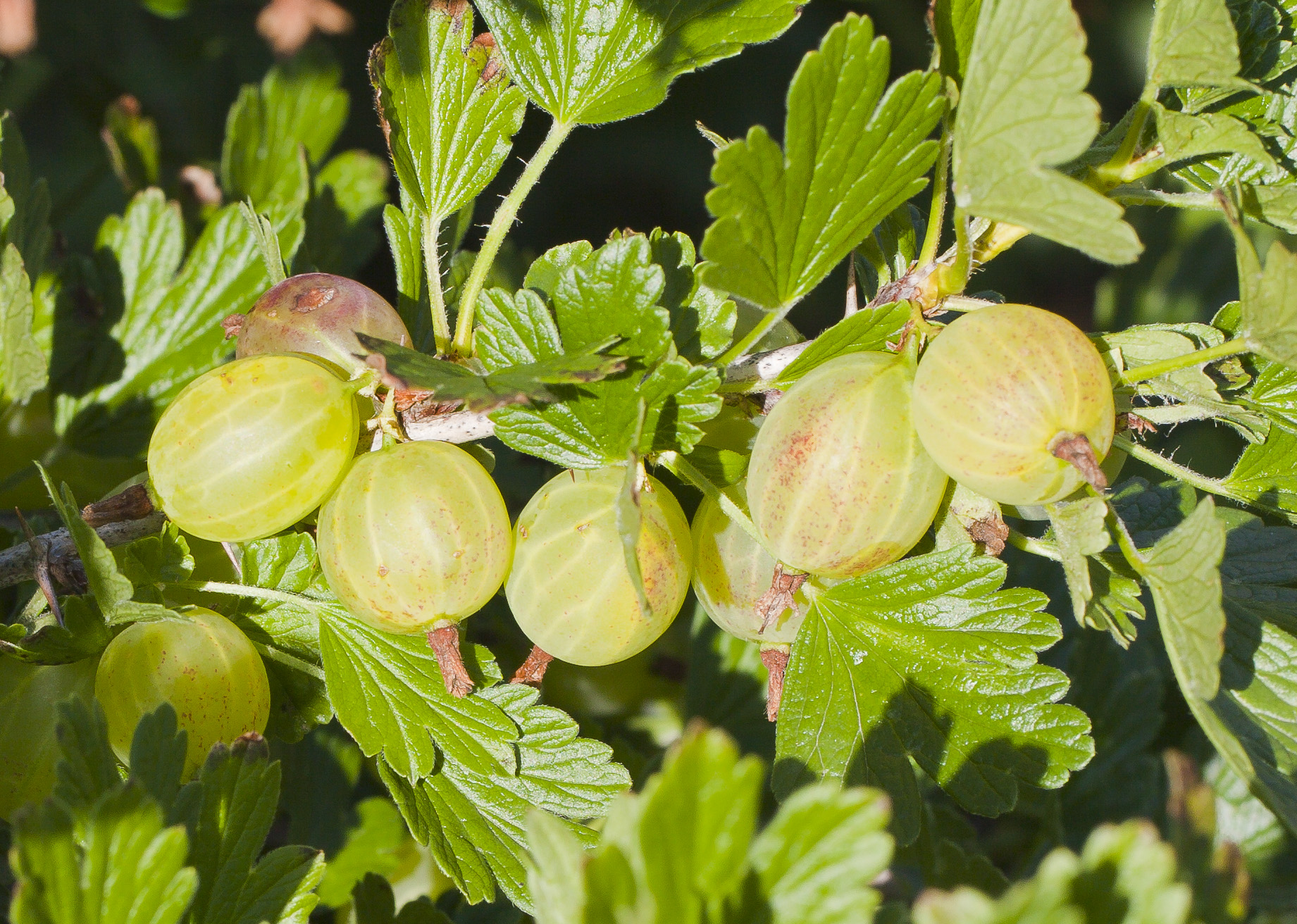 Gooseberry (Ribes uva-crispa), Munich, Germany